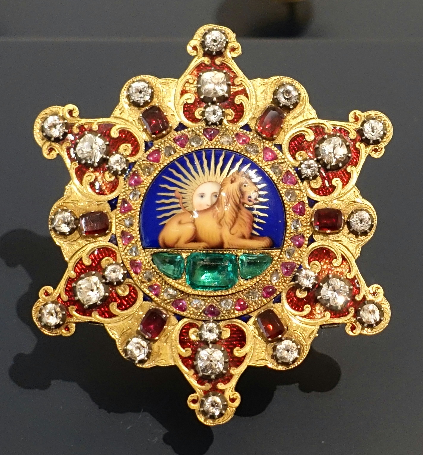 Exhibit in the Aga Khan Museum - Toronto, Canada. This work is old enough so that it is in the public domain.